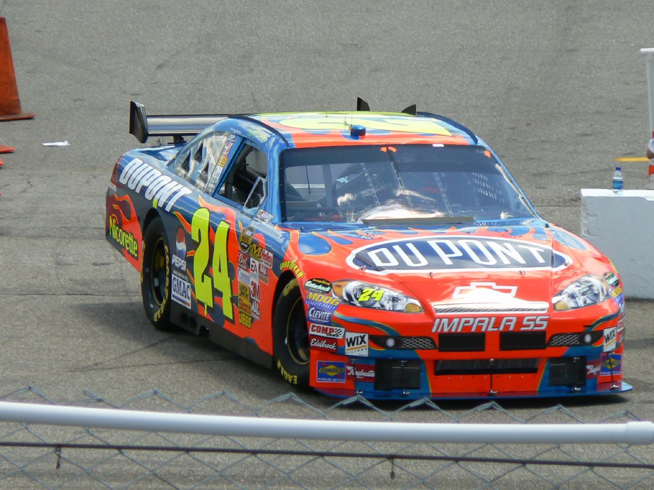 Could be on a Calendar...Jeff Gordon exits the garage area.